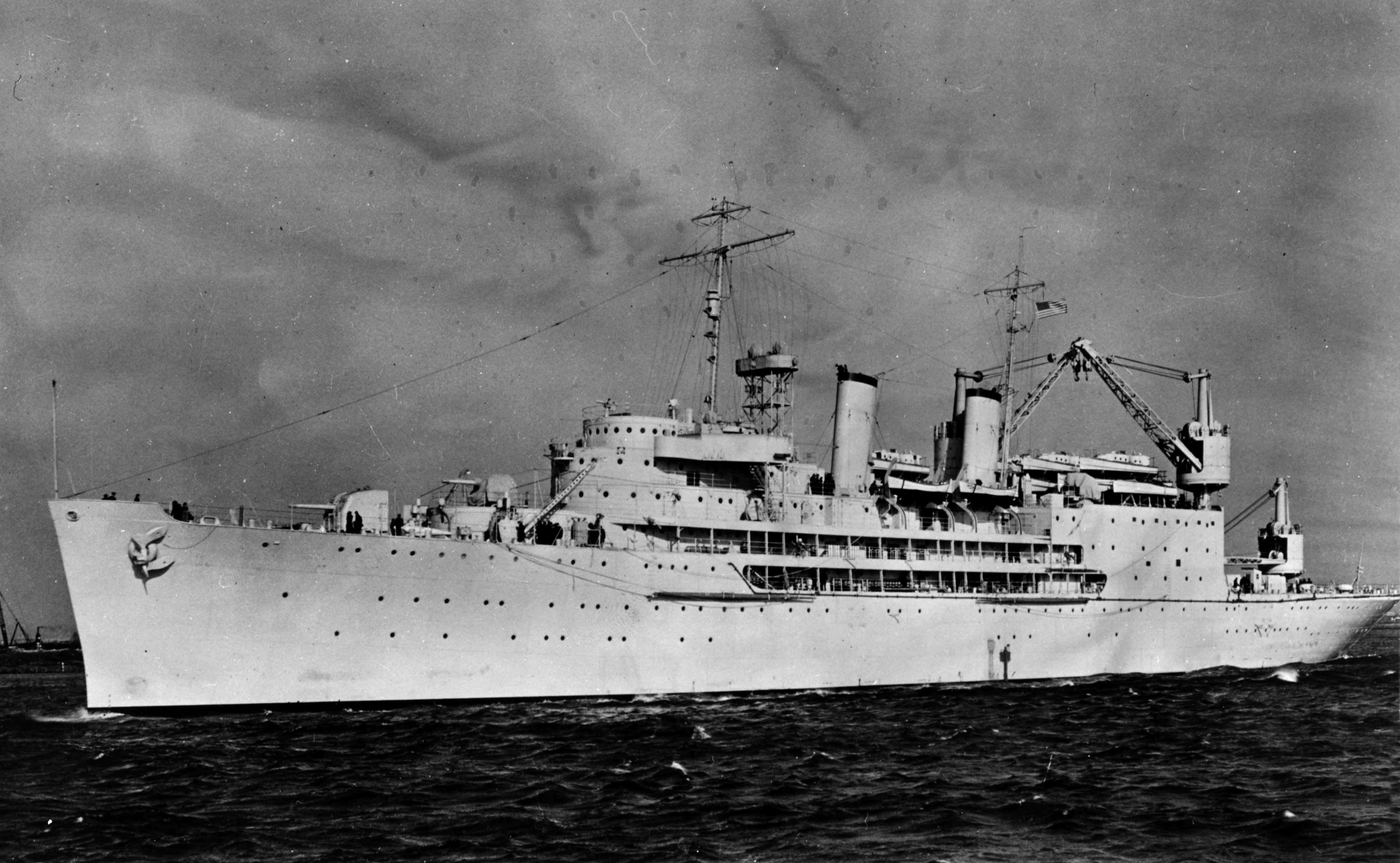 The U.S. Navy seaplane tender USS Curtiss (AV-4) soon after her completion. She was commissioned on 15 November 1940.